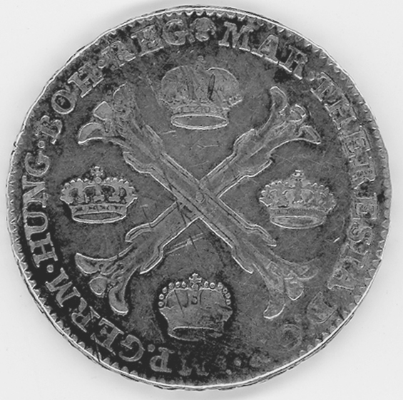 MARIA THERESIA Kronenthaler obverse, Burgundian cross, 4 crowns in angles, 1770, Craig Low Countries # 14.